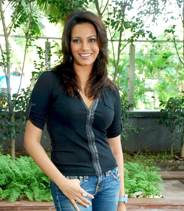 Diana Hayden, Femina Miss India World and Miss World 1997